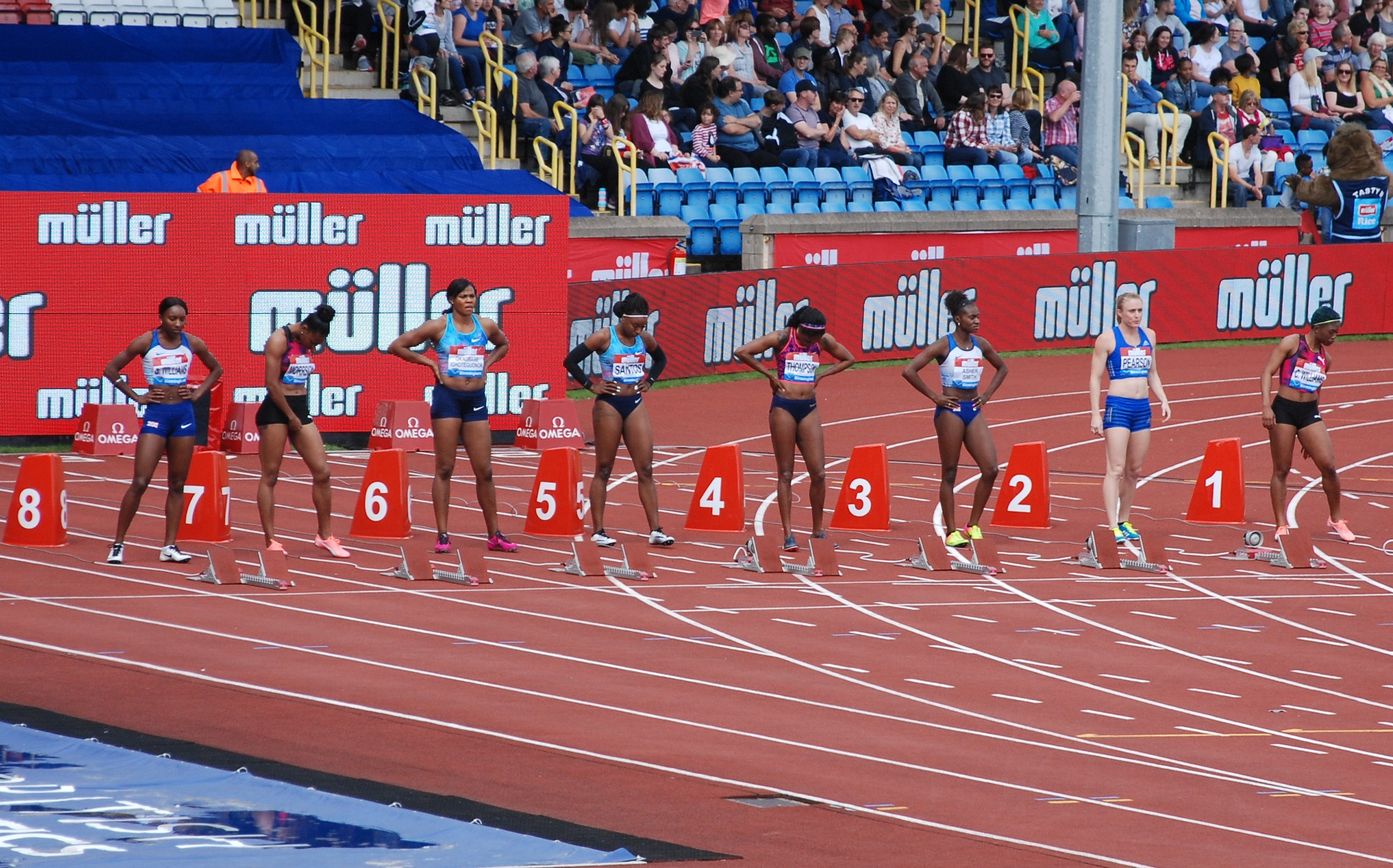 On their marks at Women's 100m first semi-final at Muller Diamond League Birmingham Grand Prix